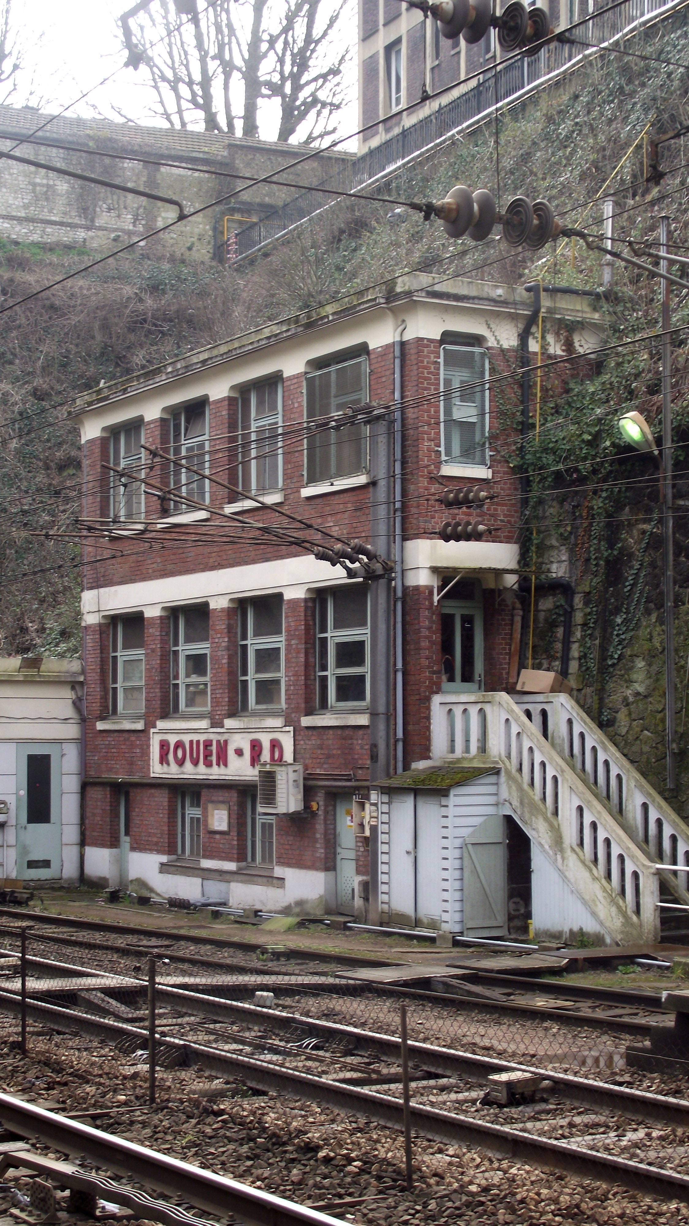 Signalbox in Rouen RD station